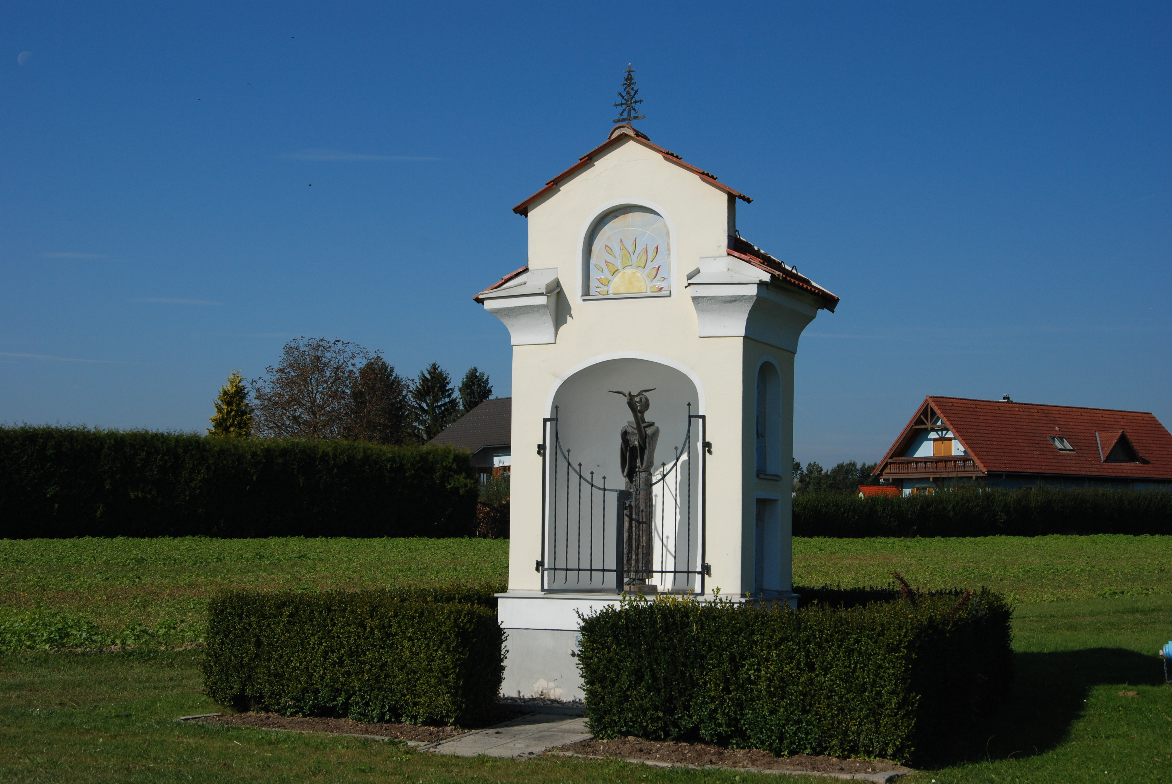 Franziskus Bildstock Rax